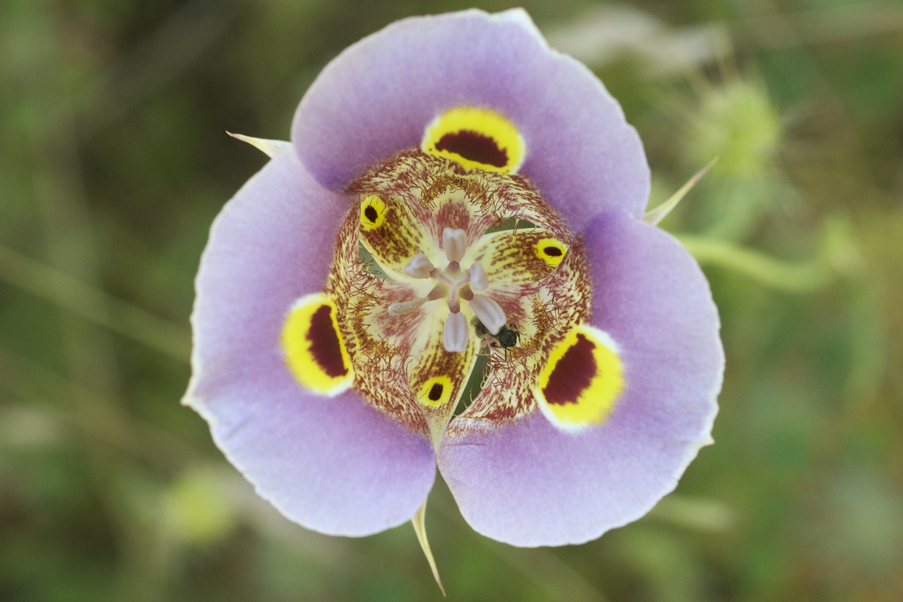 Species from California Common name: Mariposa Lily Photographed near Placerville, Placer County, California